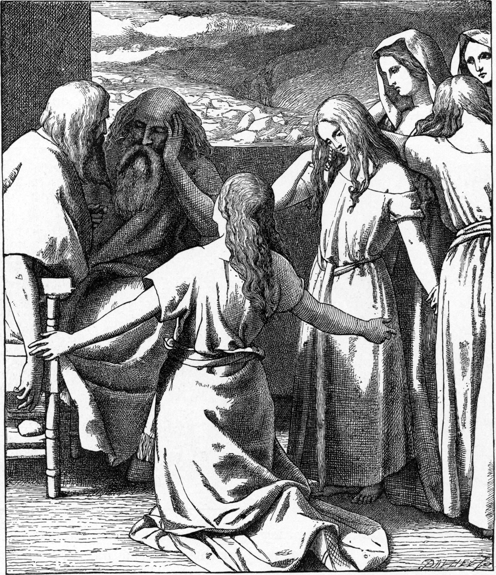 The Daughters of Zelophehad. Caption: "The women are kneeling down before Moses. They are asking him for something. They are the daughters of Zelophehad. Their father is dead. They have no brothers. They are asking for a share of the land promised to the men of the Israelites. Moses will give it to them." Illustration from the 1897 Bible Pictures and What They Teach Us: Containing 400 Illustrations from the Old and New Testaments: With brief descriptions by Charles Foster